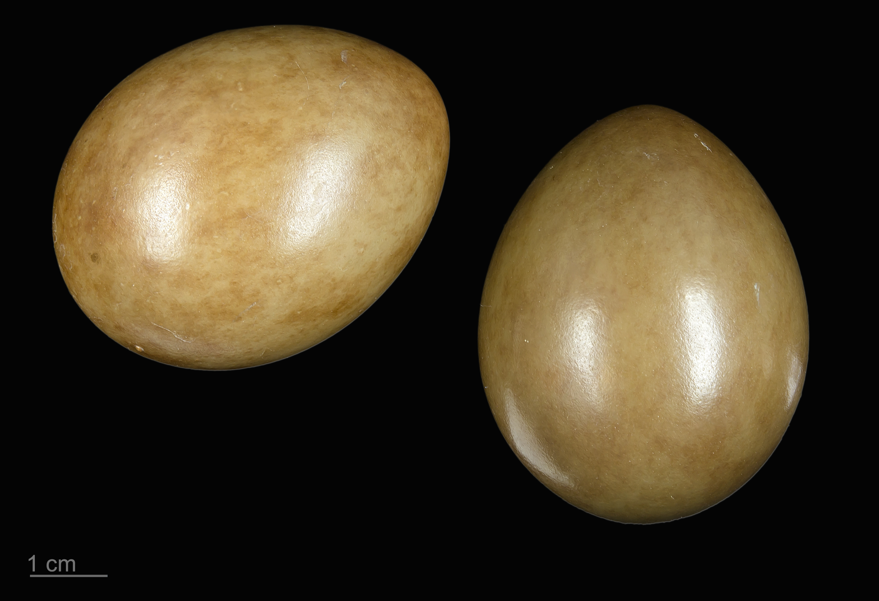 Eggs of little bustard Two specimens of the same spawn ; collection of Jacques Perrin de Brichambaut.